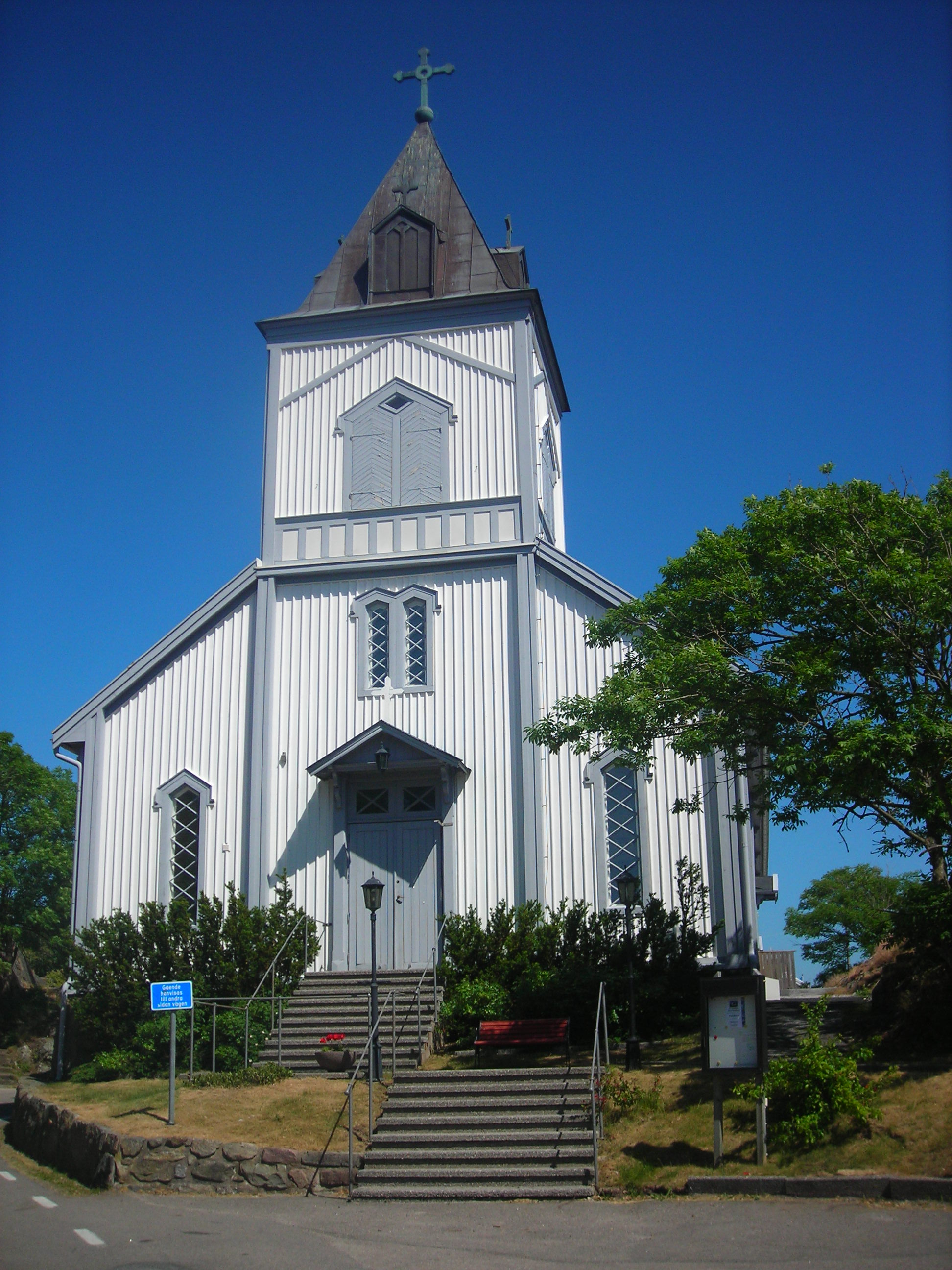 Church of Mollösund